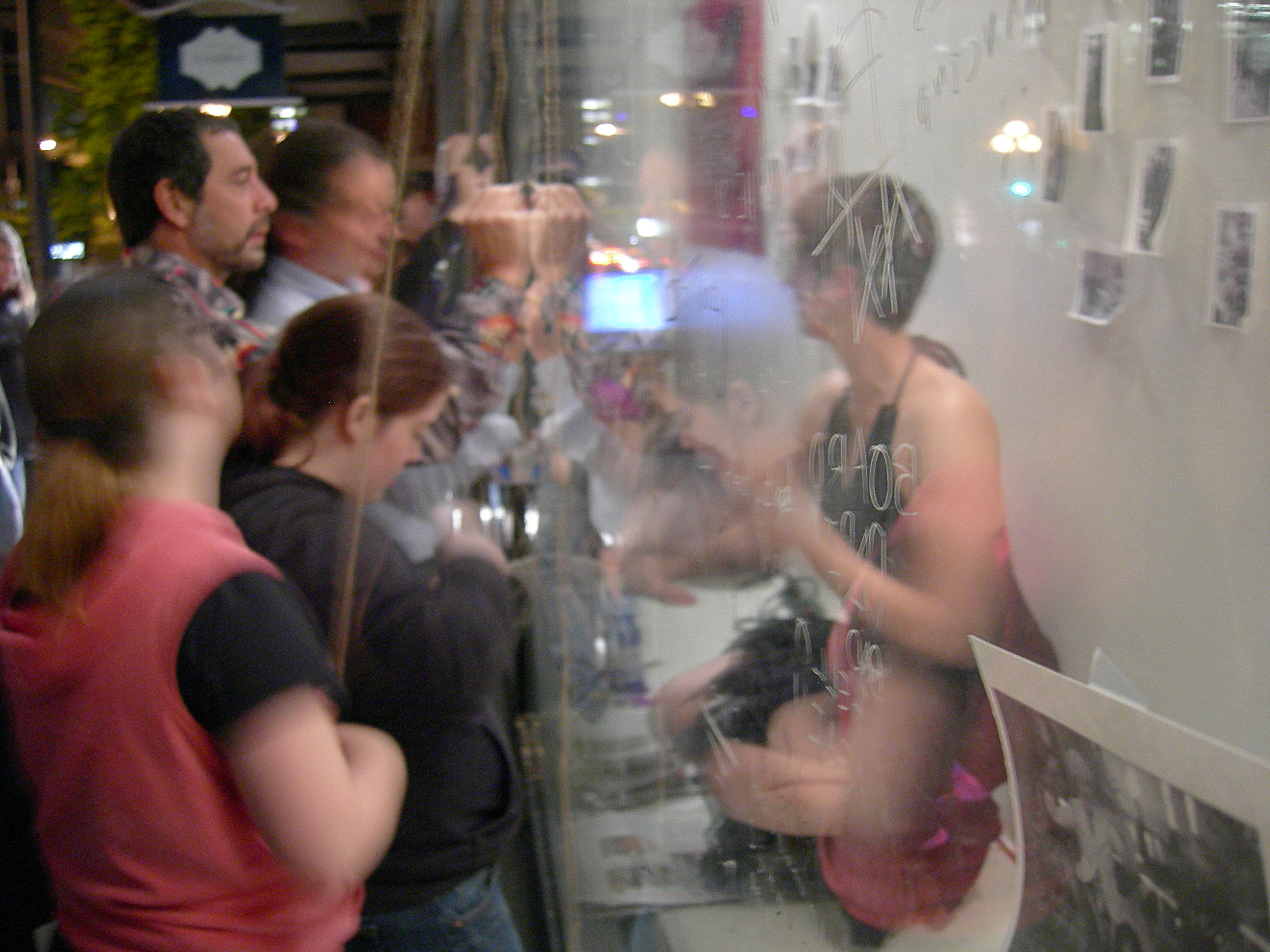 Simultaneously with the 35-hour marathon re-opening of the Seattle Art Museum, performance artists Laura Curry, Lori Dillon, and Pamela Gregory (sorry, I don't know for sure which is which but if anyone can identify them individually that would be great. I think Laura Curry has the short dark hair, Lori Dillon has the long dark hair, and Pamela Gregory is in the purple wig) did a 35-hour performance of "living" in the window of a clothing store, The Finerie, half a block south across First Avenue. It was a variant on "Performance Memoirs", a piece Curry and Dillon have performed other times. Grease pencils allowed communication through the window, and the crowd got especially large at times when there was a wait to get into the museum. These pictures were all taken at night using available light. I've done my best to clean them up various ways (remapping colors, sharpening). Further improvements would be welcome.